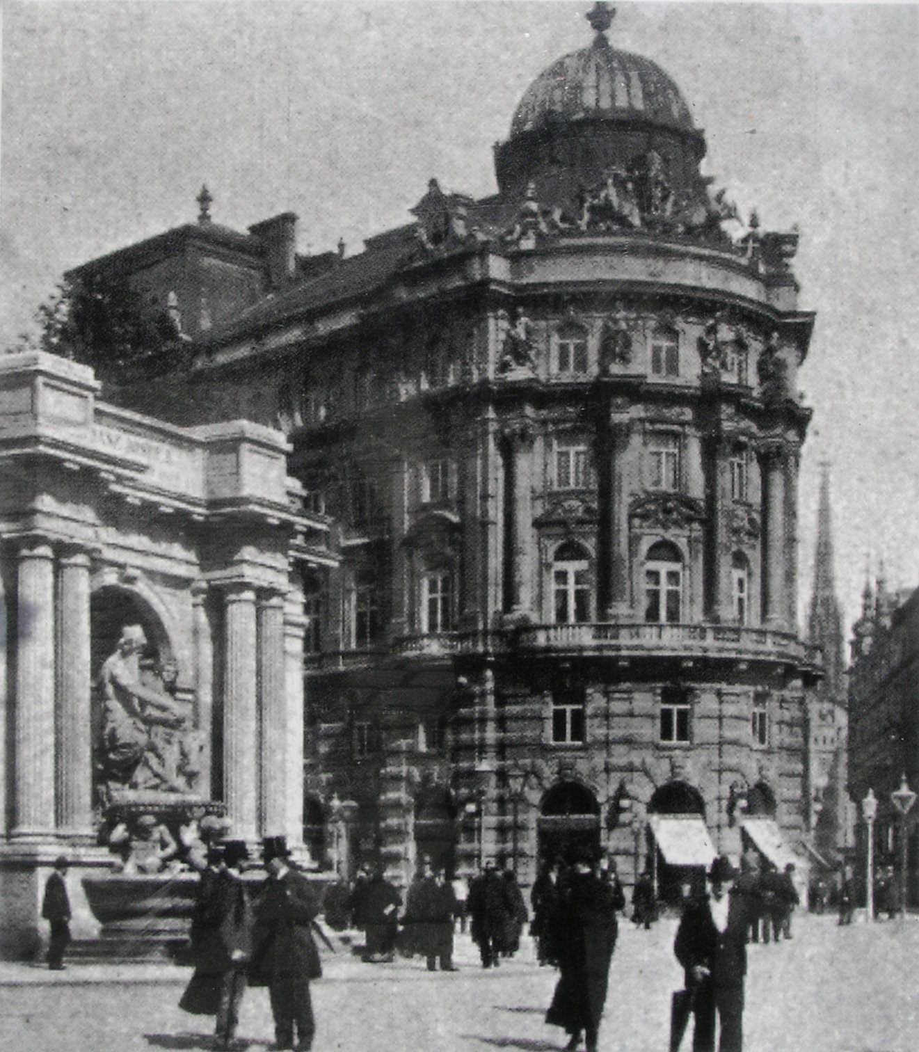 Foto of the Phillipp-Hof building, that used to stand at the Albertinaplatz until it was destroyed by allied bombs on March 12, 1945. Today the site of the Mahnmal gegen Krieg und Faschismus (Monument against War and Fascism) in Vienna, Austria.